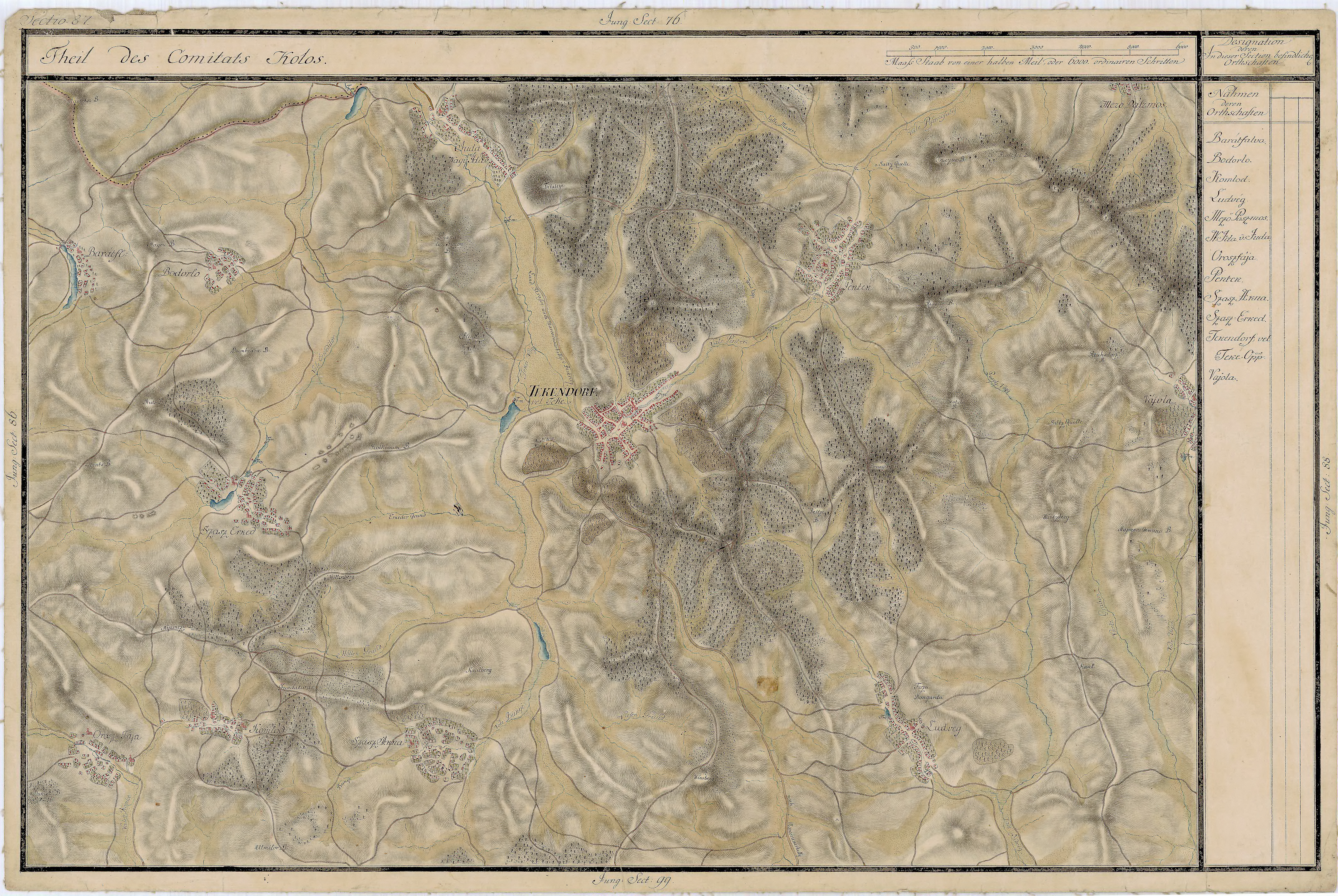 Grand Duchy of Transylvania, 1769-1773. Josephinische Landaufnahme pg.087